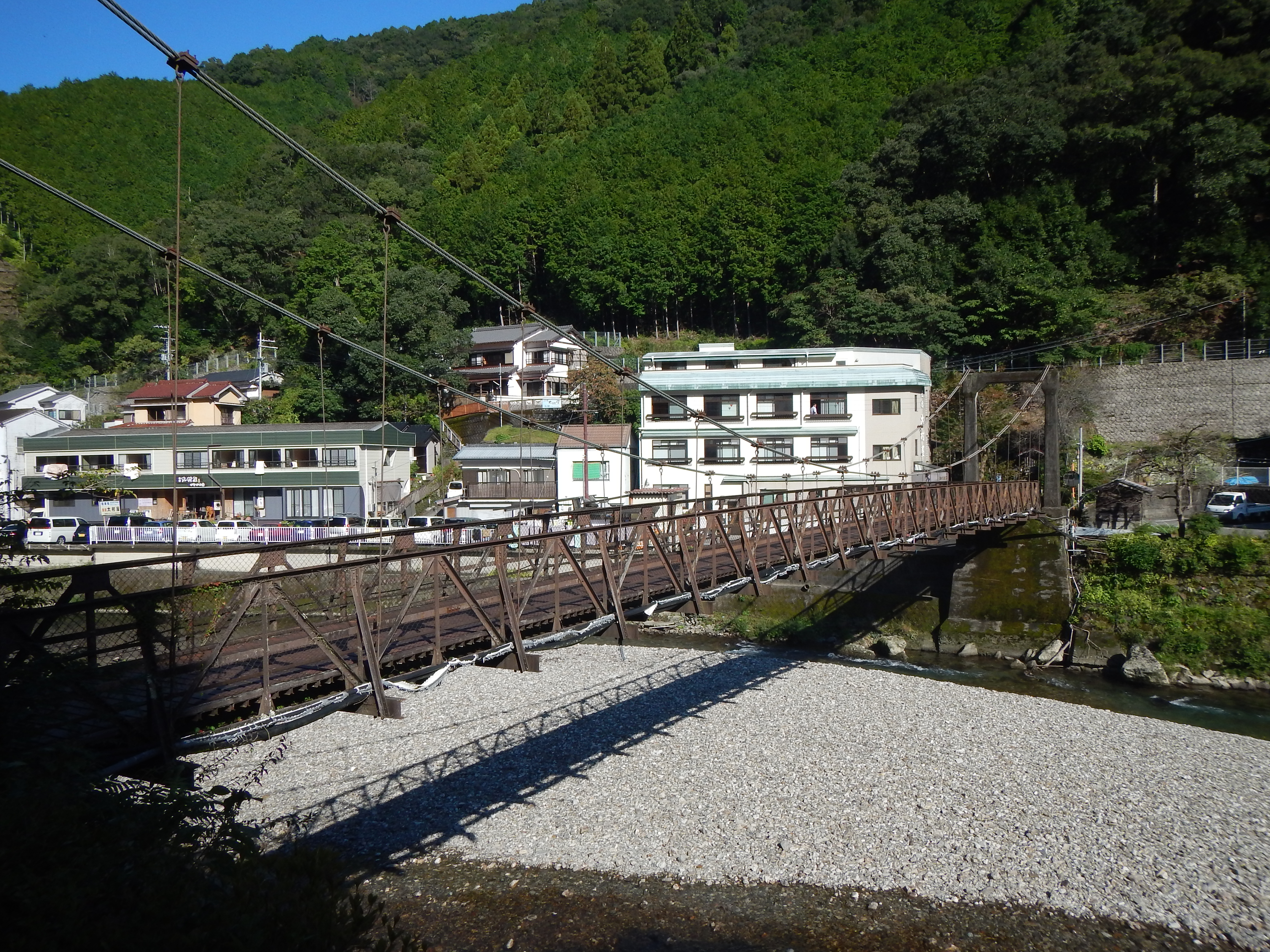 kawayu onsen2